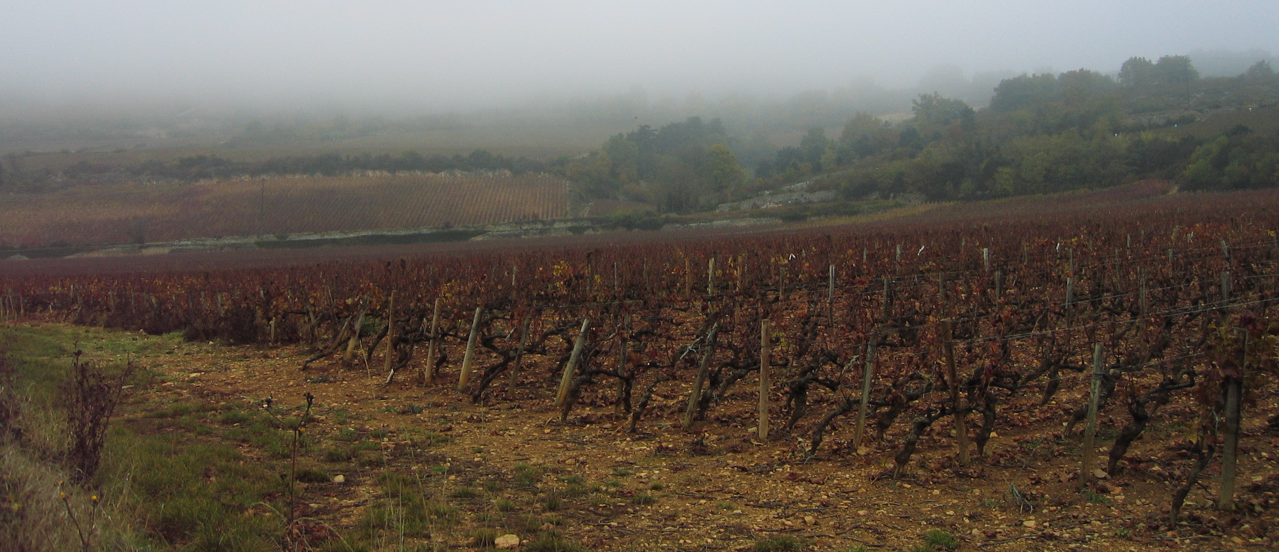 A vineyard in Santenay in the Côte de Beaune subregion of Burgundy. This vineyard is the climat les Hâtes, just above Bas-Santenay.